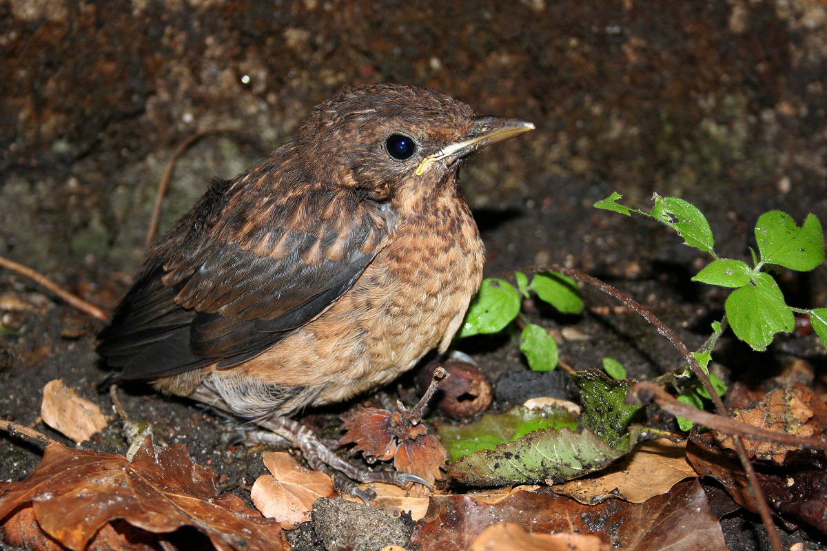 A young Blackbird Turdus merula European Starling that felt from his nest